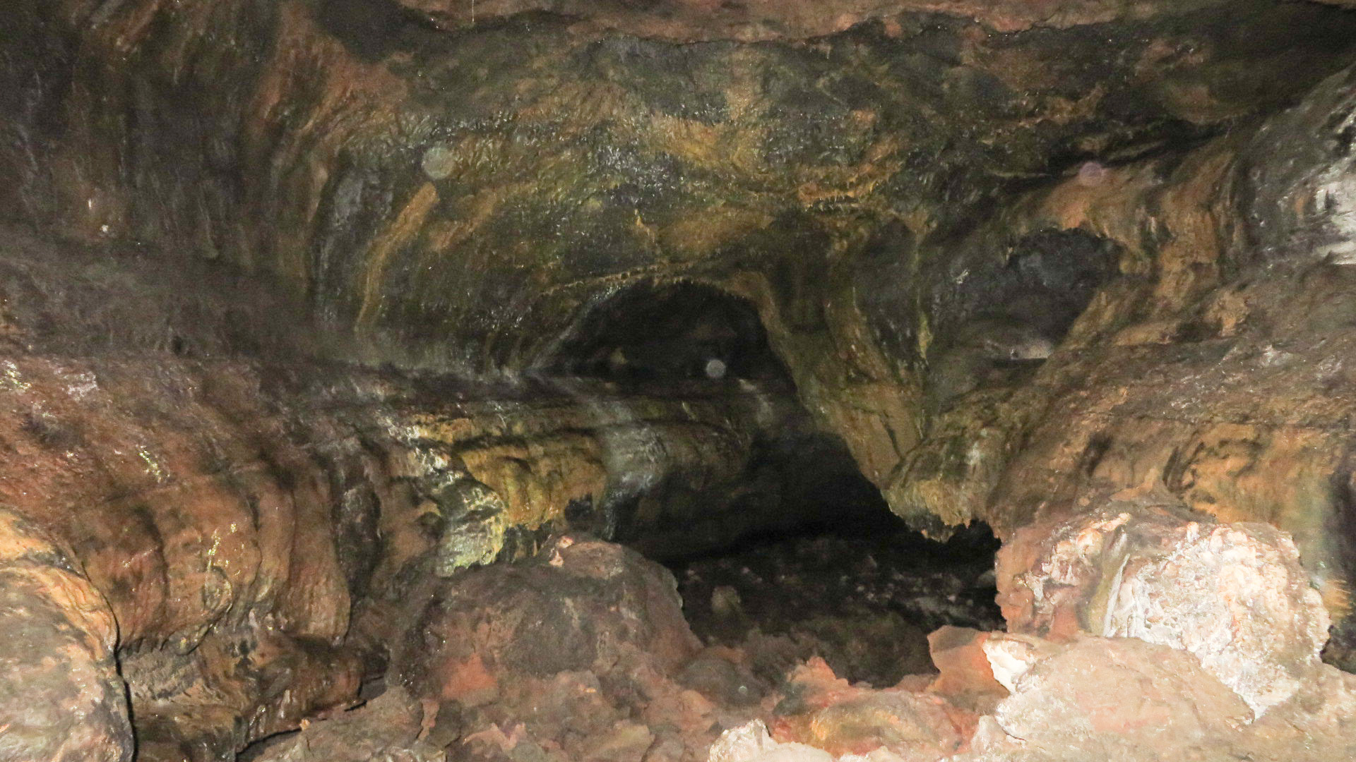 Lava tube to be seen in the upper part of Ponta Delgada.